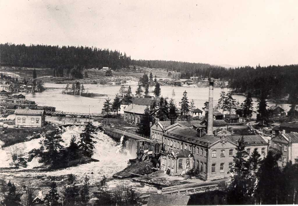 Patalankoski papermill and mechanical pulp mill in Jämsänkoski, Finland in early 20th century